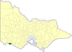 Location of the former Shire of Belfast within Victoria.